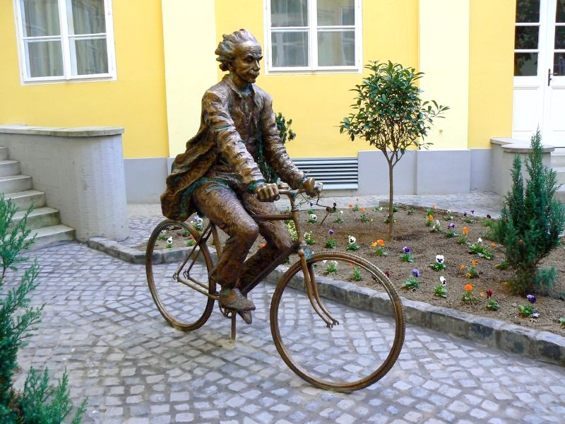 "Albert Einstein, 1913 California" statue by László Bánvölgyi in Szeged, Hungary